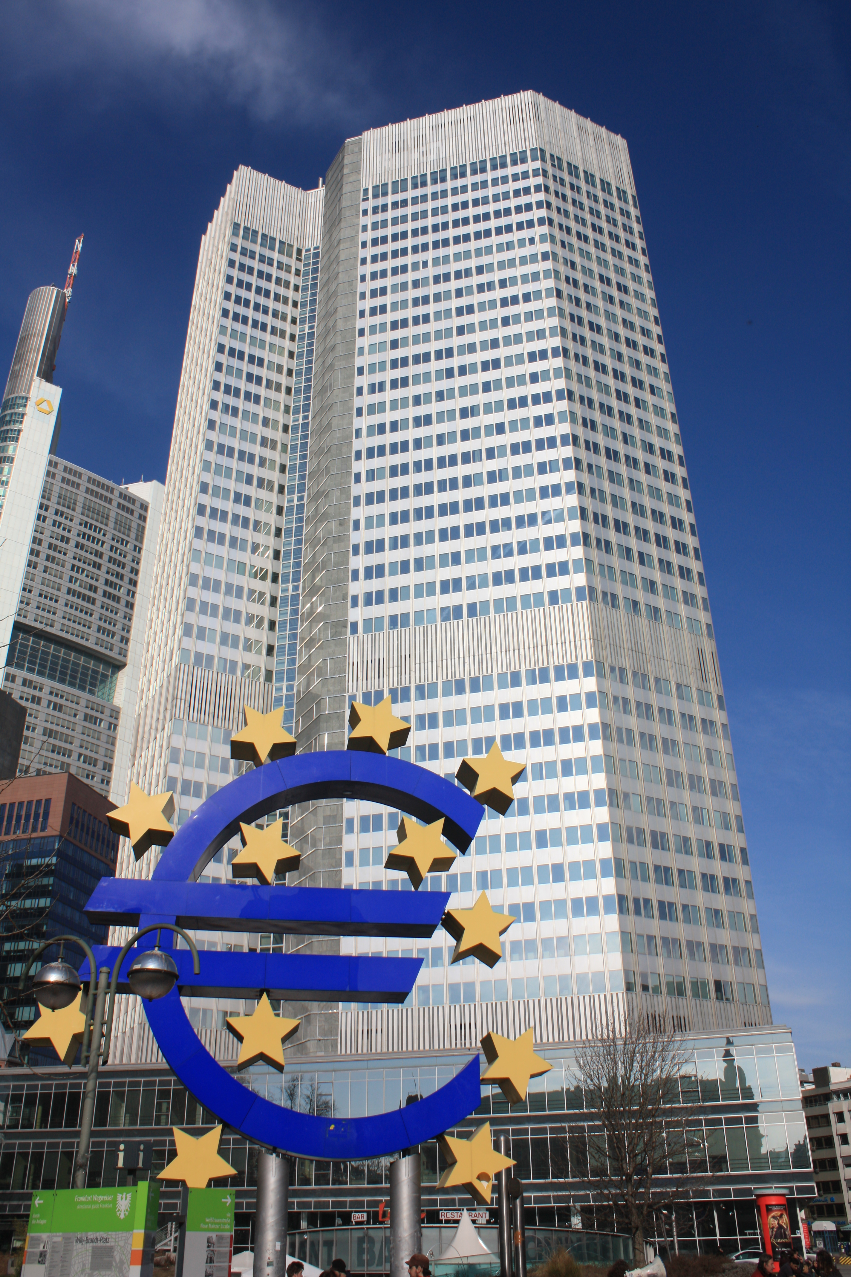 Euro sign at Gallusanlage with European Central Bank bldg in Frankfurt, Hesse, Germany